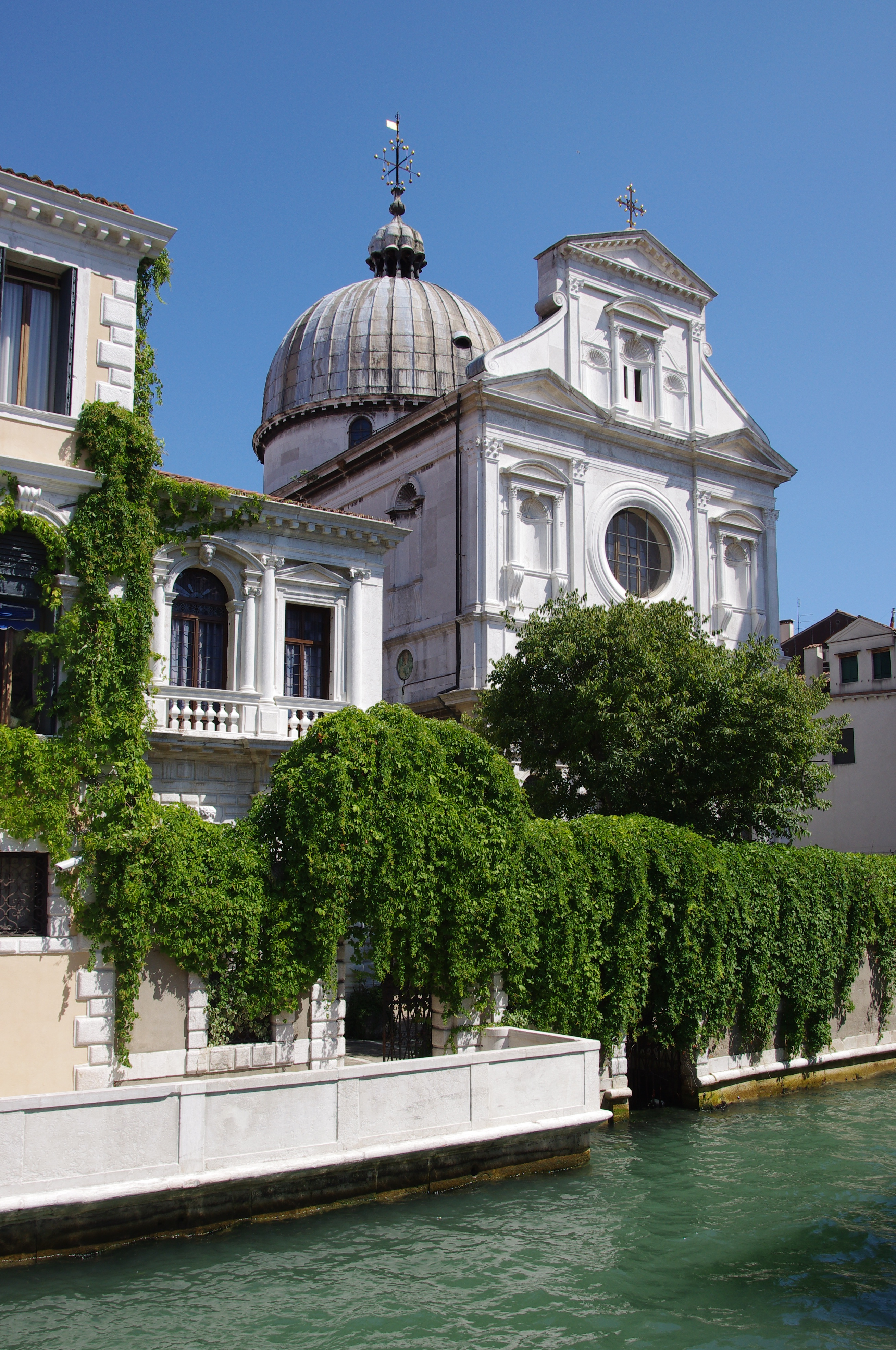 The Greek-Orthodox San Giorgio dei Greci church in Venice